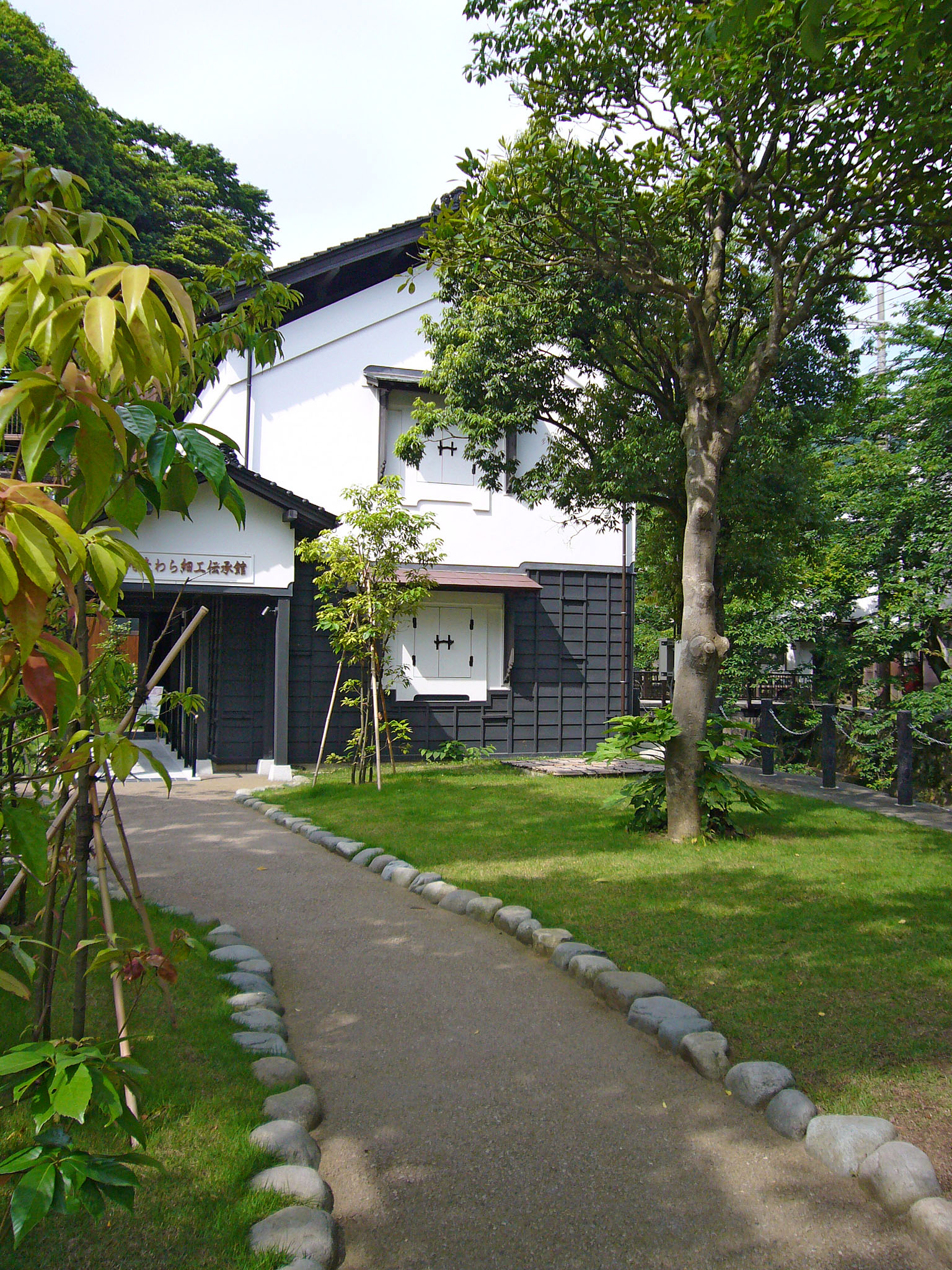 Mugiwarazaiku-Denshokan, Kinosaki Onsen in Toyooka, Hyogo prefectrue, Japan